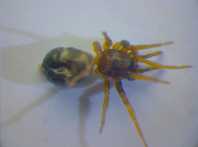 Phrurolithus festivus, adult female from Brandenburg, Germany